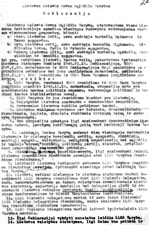 1949 February 16th Declaration of the Council of Freedom Fight of Lithuania